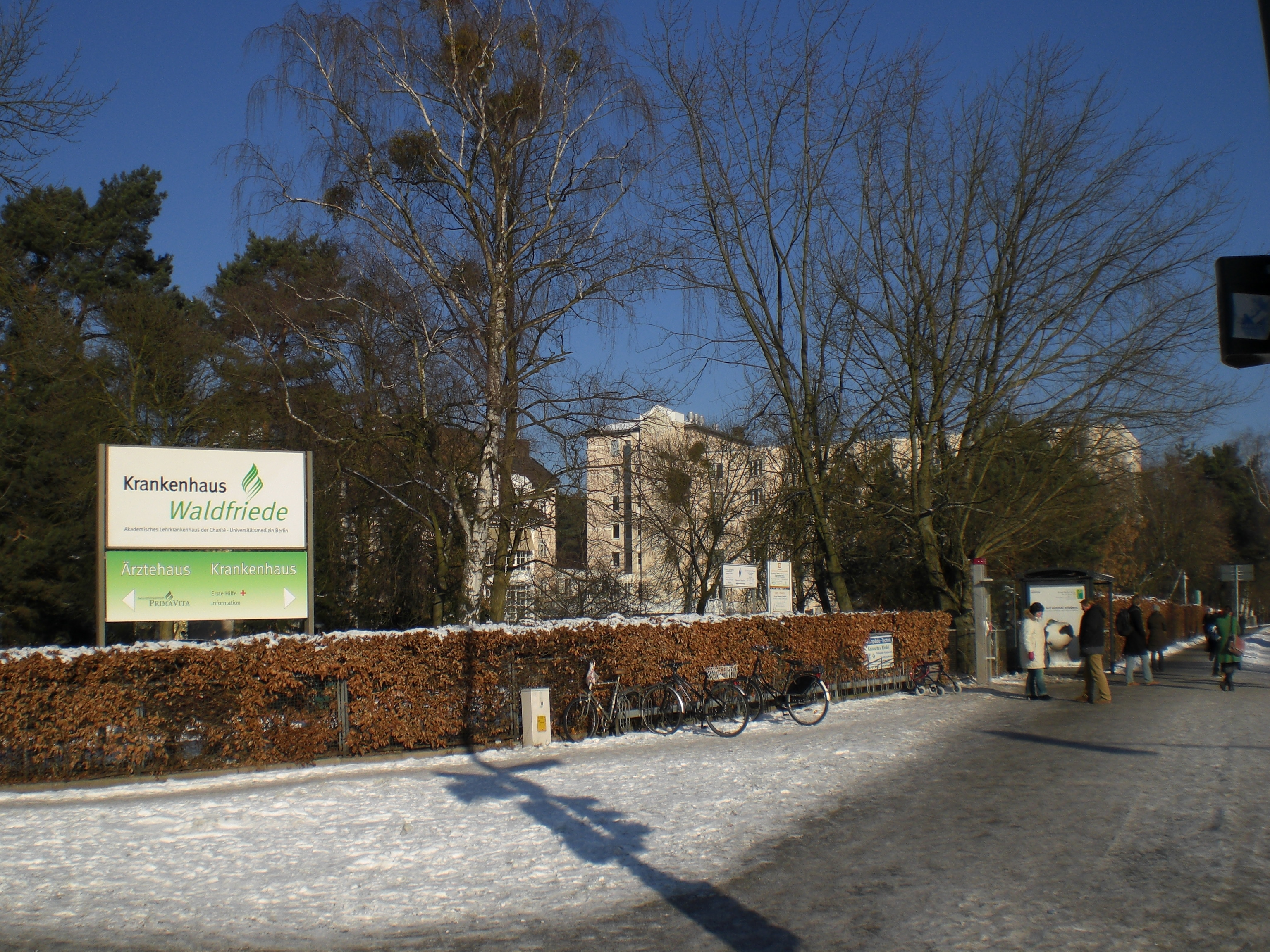 hospital "Waldfriede" in Berlin-Zehlendorf, Germany